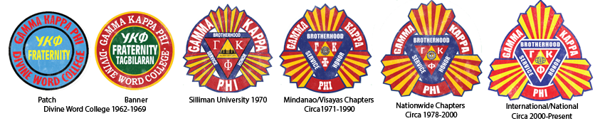 The evolution of the Gamma Kappa Phi seal